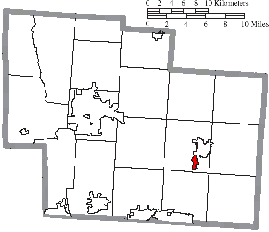 Map of the municipal and township boundaries of Delaware County, Ohio, United States, as of the 2000 census, with the location of the village of Galena highlighted. Township borders are shown only in unincorporated areas in order to differentiate incorporated and unincorporated areas more clearly.